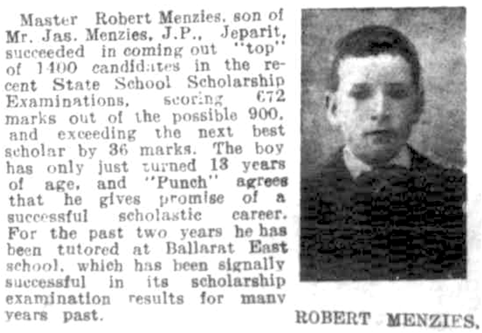 Article in Melbourne's Punch magazine noting a 13-year-old Robert Menzies's achievement of topping the state in his examinations.